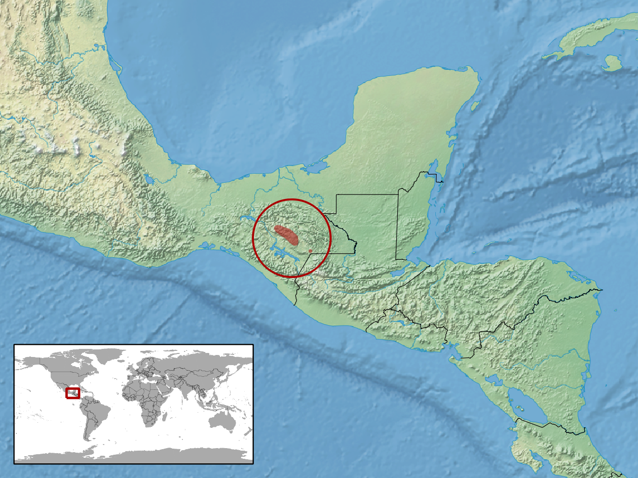 geographic distribution of Adelphicos nigrilatum (Native: Mexico)